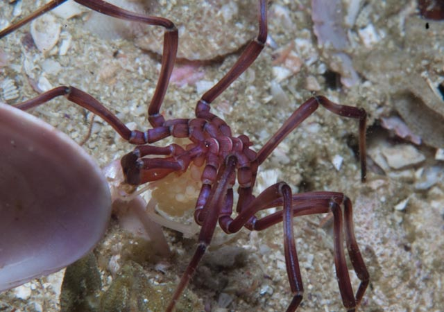 A photograph of the scarlet sea spider, Nymphon signatum, taken in 27m of water in False bay, Cape Town South Africa